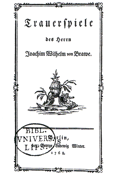 Front page of "Trauerspiele des Herrn Joachim Wilhelm von Brawe", Berlin 1768.